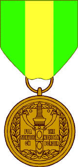 Mexican Border Service Medal.